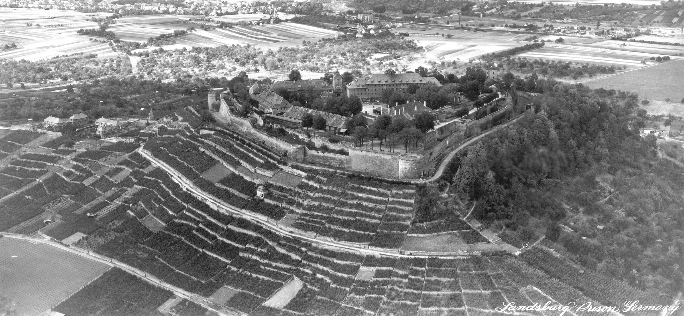 Festung Hohenasperg near Stuttgart (Baden Württemberg, Germany); wrongly labelled as Landsburg Prison in the image